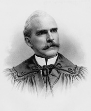 Former Senator Joseph H. Earle of South Carolina.